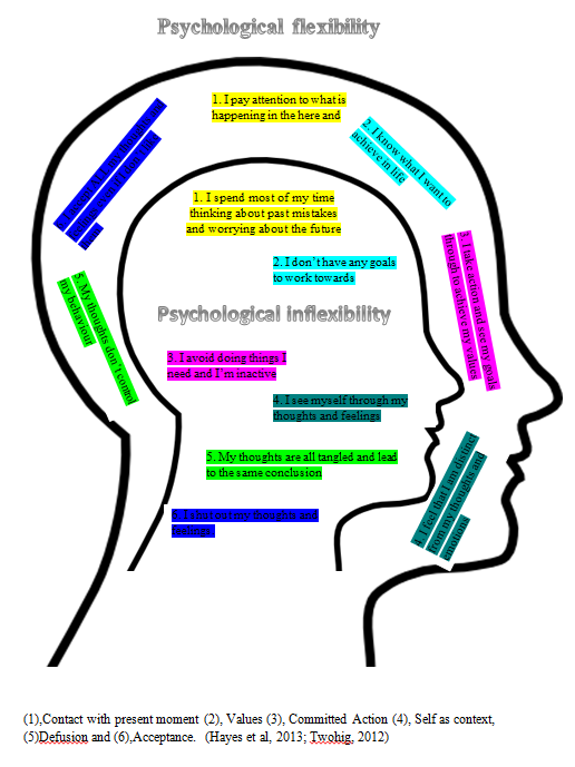 This picture depicts psychological flexibility before ACT process and After, this picture is based on diagrams from articles by Hayes et al., (2013) and Twohig (2012)